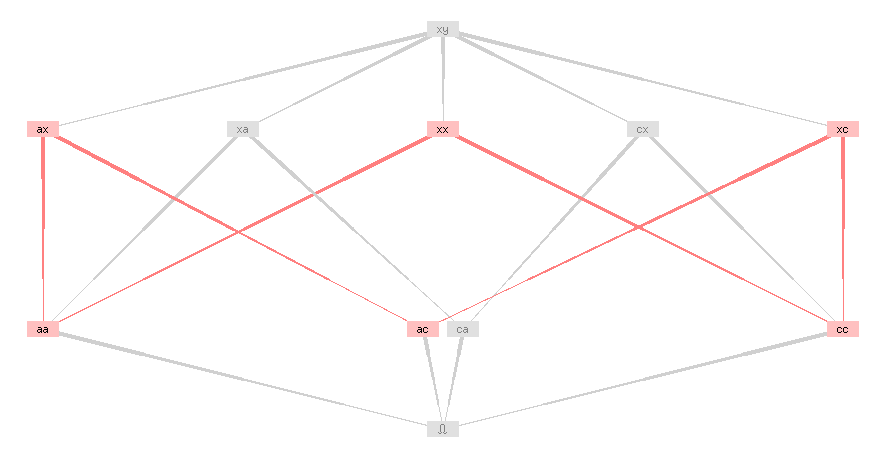 Shows a part of the subsumption lattice, demonstrating that the terms f(a,x), f(x,x), and f(x,c), do not have a common instance other than the bottom term Ω (introduced by Reynolds to indicate non-unifiability), although each two of them are syntactically unifiable. The setting assumes that f is a binary function symbol (omitted in the picture), a and c are constants, and x and y are variables. All involved terms term have f(x,y) as a common upper bound; all its instances by variables or constants are shown, the relevant ones highlighted in red.